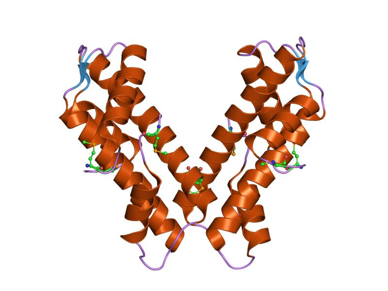 Cartoon representation of the molecular structure of protein registered with 1h3o code.